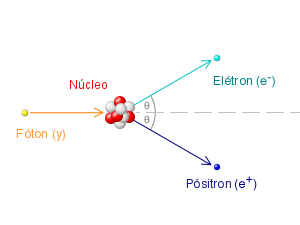 Translation of File:Pairproduction.png to Brazilian Portuguese. Created upon request.